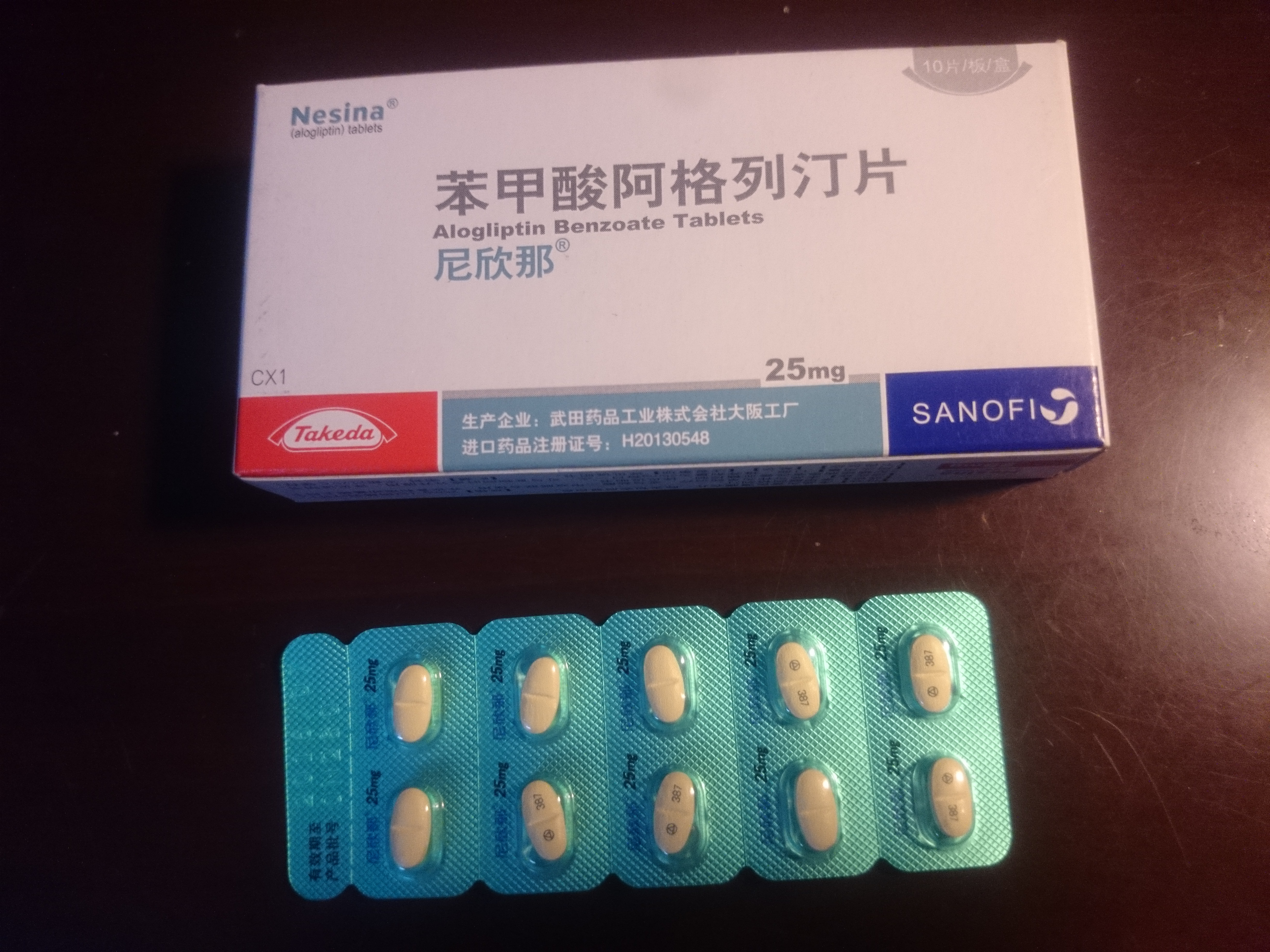 Nesina® Alogliptin Benzoate Tablets sales in Mainland China. Specification is 25mg * 10 tablets.